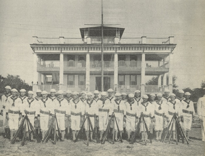 Sarasota Naval Militia right before leaving.